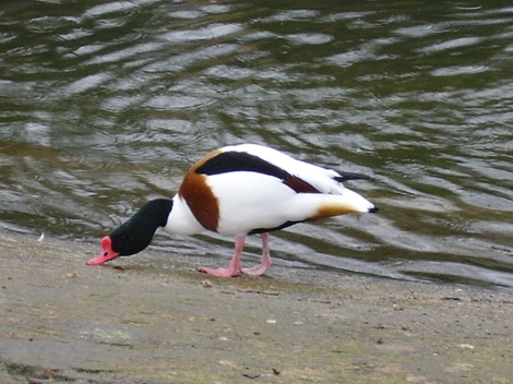 Common shelduck (Tadorna tadorna)